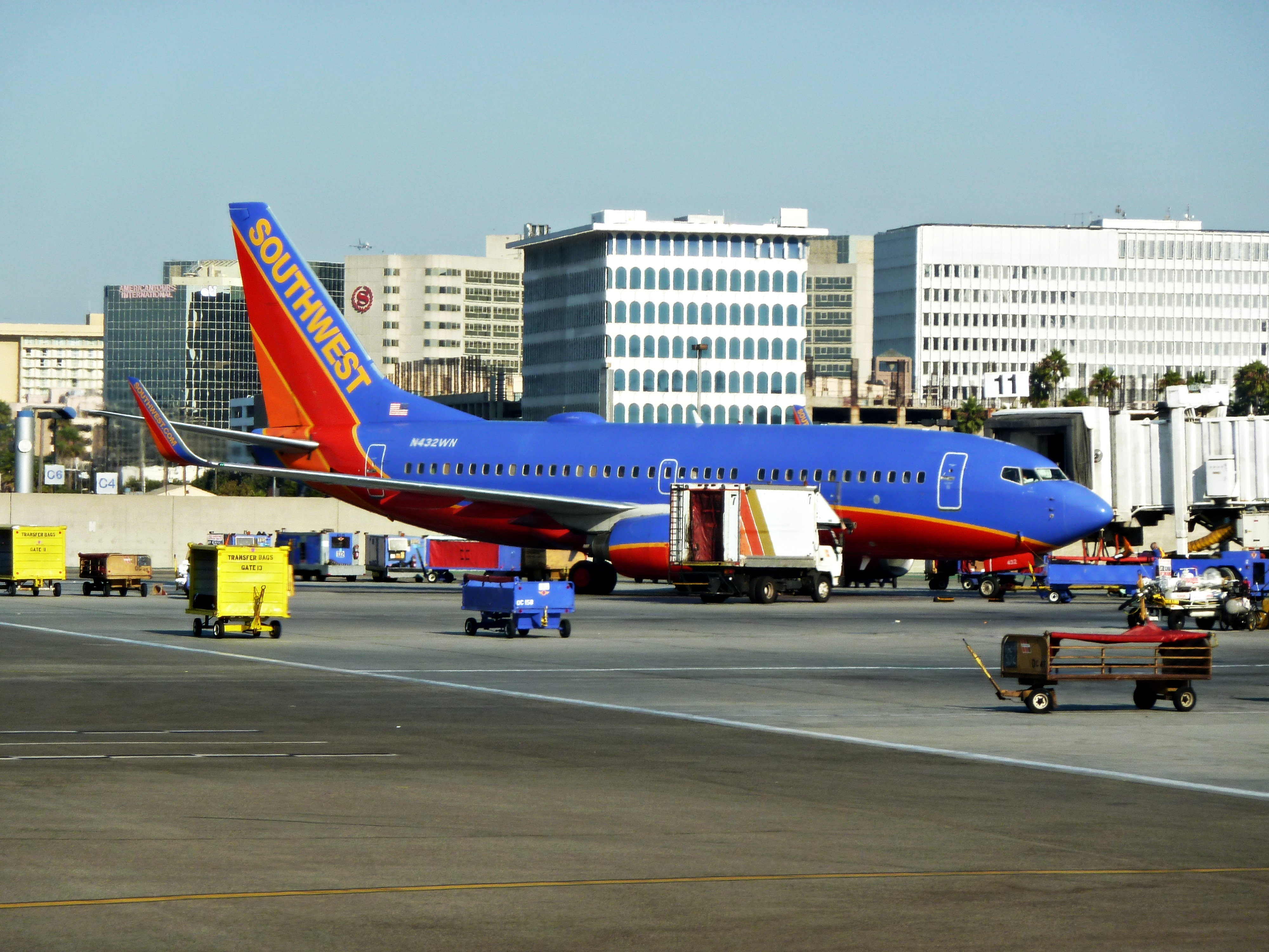 Southwest Boeing 737 at Los Angeles International Airport (LAX), Los Angeles, CA, USA